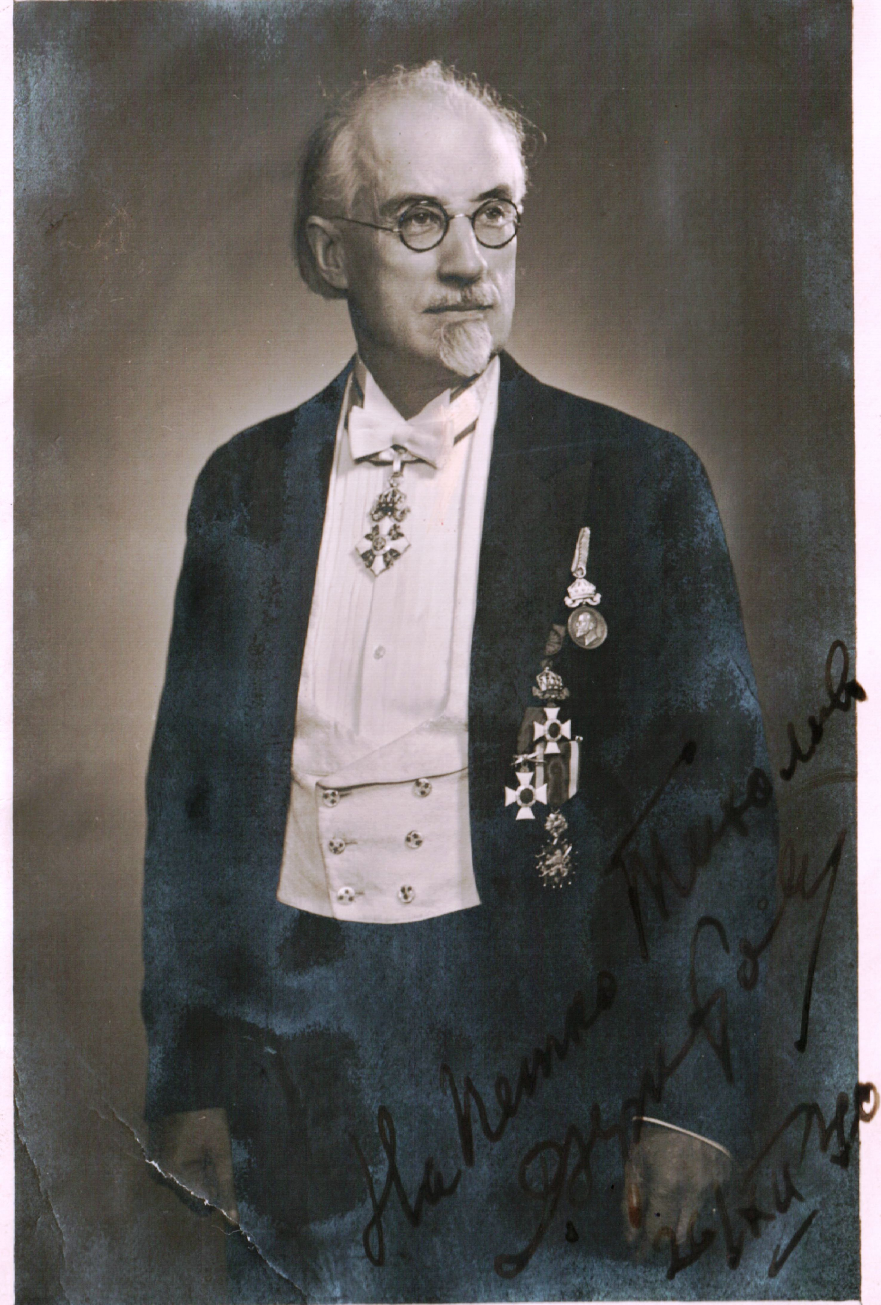 Bulgarian composer Dobri Hristov.